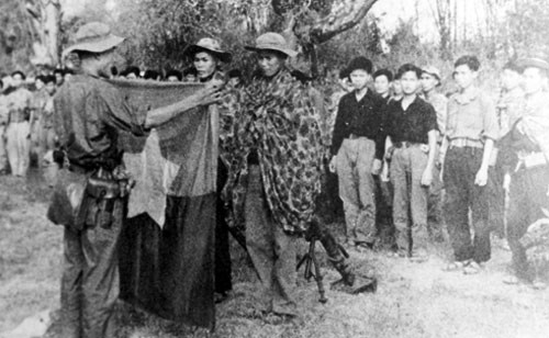 People's Liberation Armed Forces Special Forces are sworn in before the General Offensive, General Uprising, Tet Offensive.